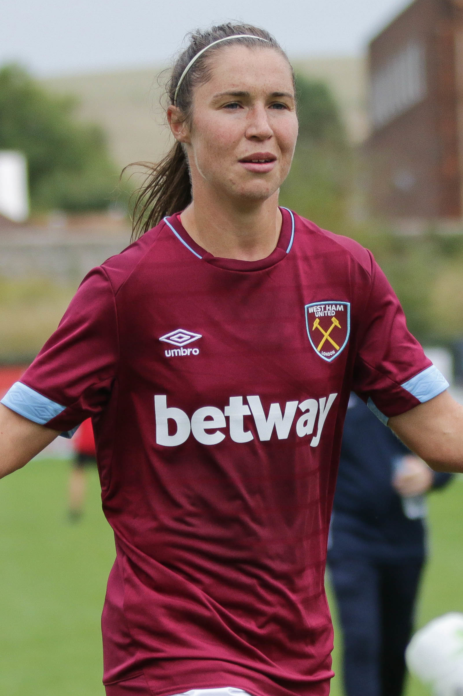 Lewes FC Women 0 West Ham Utd Women 5 pre season 12 08 2018-600.jpg